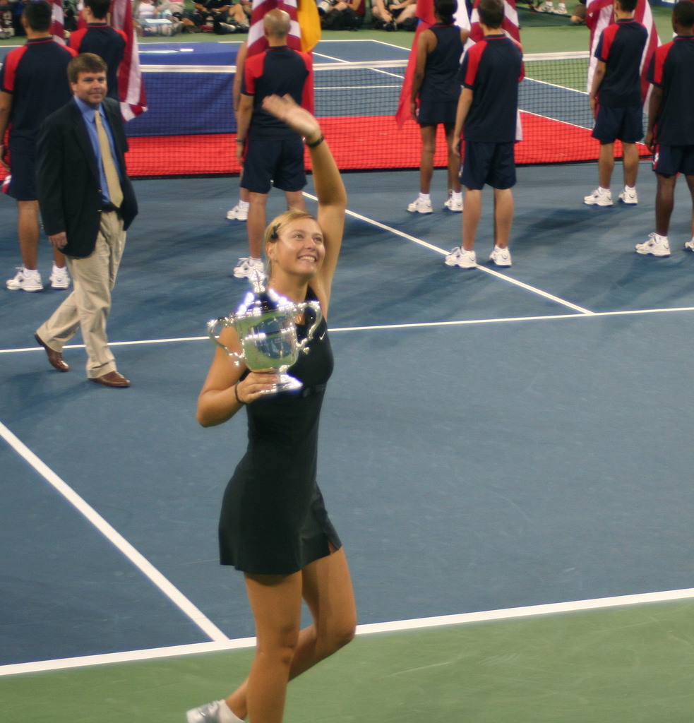 Maria Sharapova wins the US Open September 9, 2006